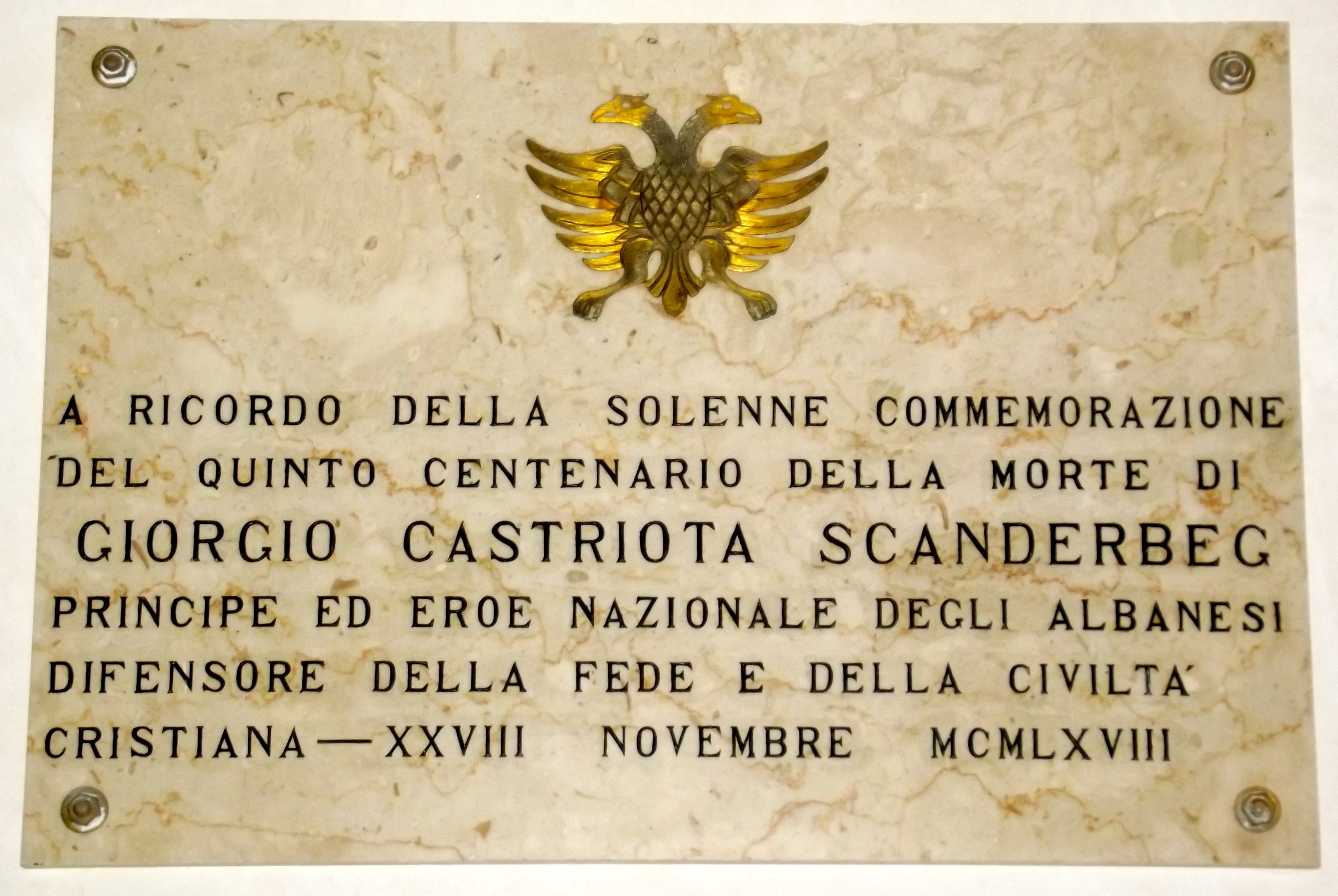 The marble plaque in memory of Albanian hero Giorgio Castriota Skanderbeg (Gjergji Kastrioti Skënderbeu), placed in the Arbëreshë Albanian Church of Palermo (Saint Nicholas of the Italo-Albanians to the Martorana) at the behest of the faithful Albanians of Sicily and its Byzantine clergy in the fifth centenary his death (1968).